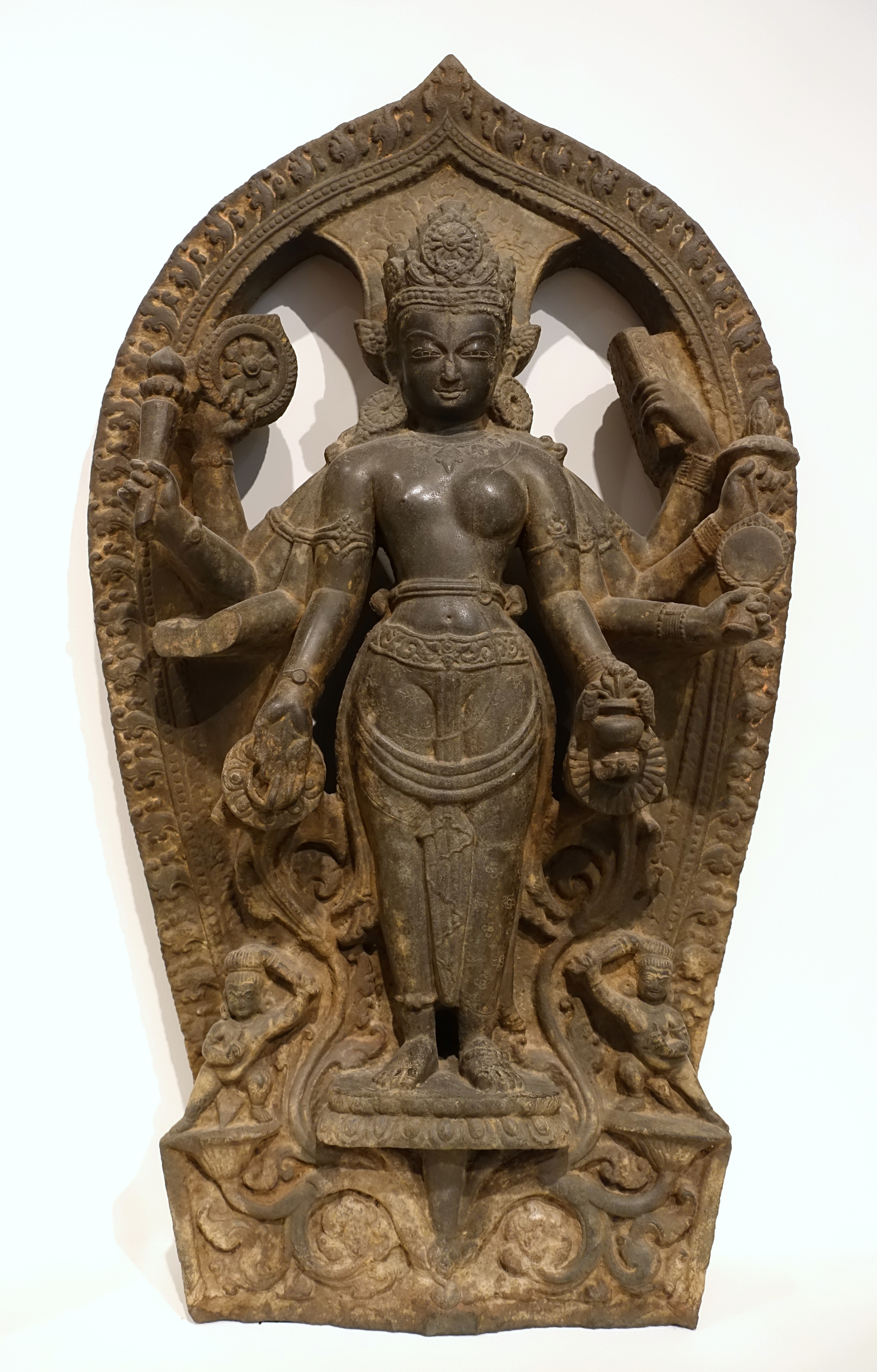 Sculpture in the Dallas Museum of Art , Texas, USA.